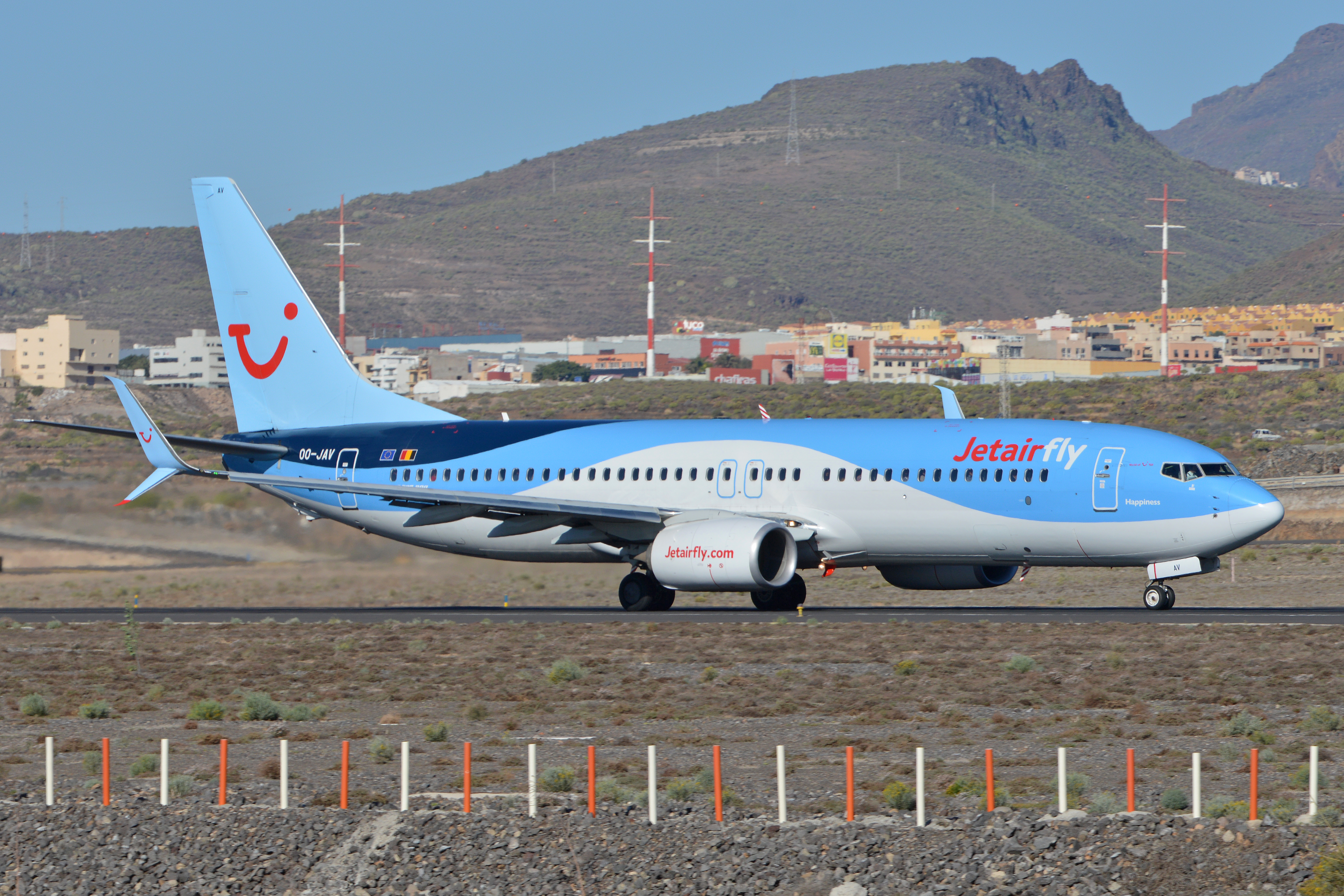 c/n 40943, l/n 4407. Built 2013. Departing on flight JAF3114/83M to Brussels. Tenerife South Airport, Canary Islands. 20-1-2016